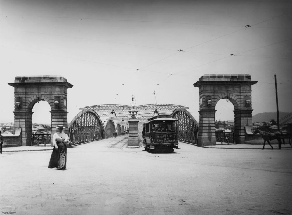 Combination class electric tram on the second permanent Victoria Bridge in Brisbane, Australia.